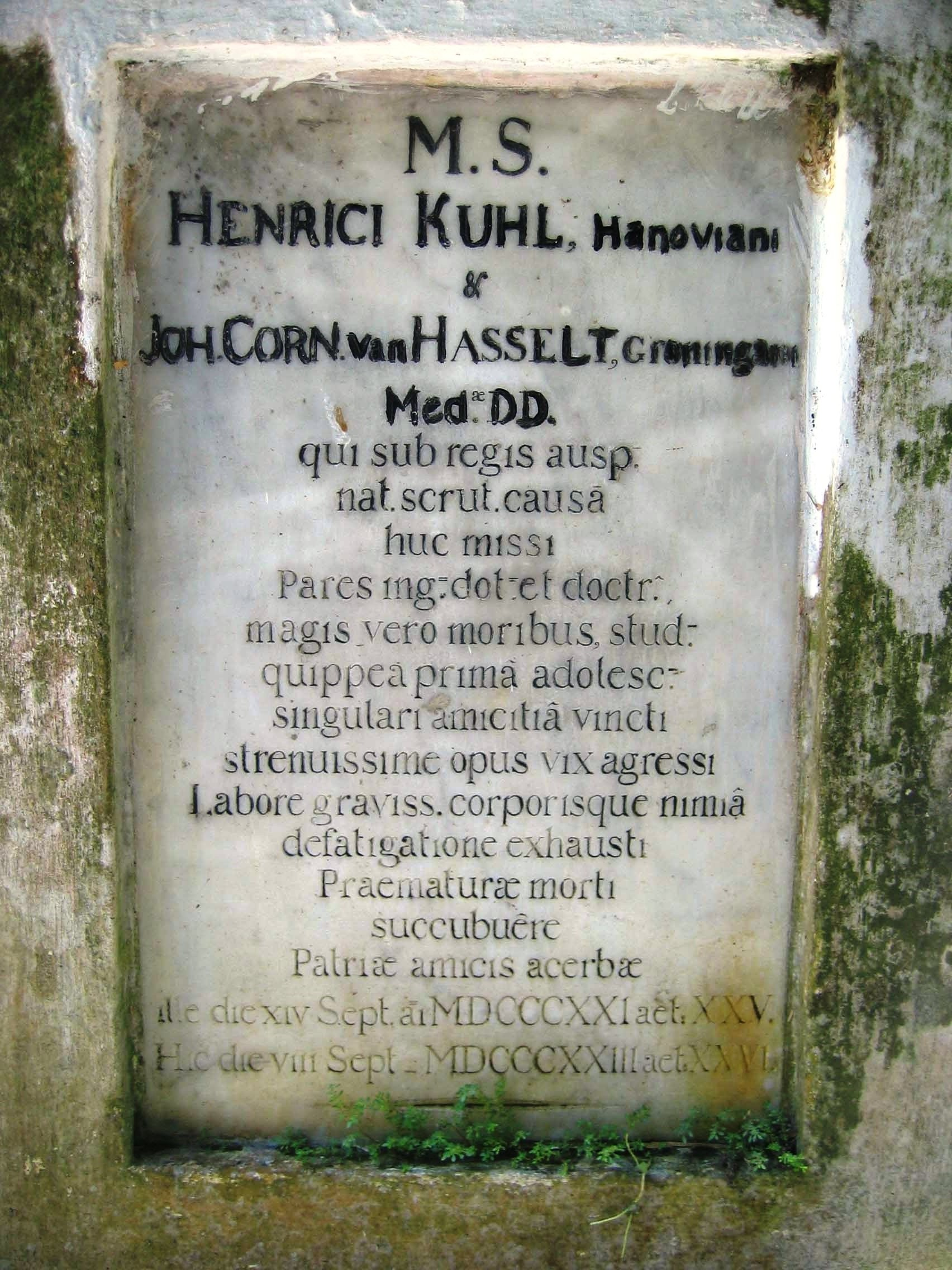 Tablet of inscription of Heinrich Kuhl (1797-1821) and Johan Coenraad van Hasselt (1797-1823), Bogor, Java, Indonesien